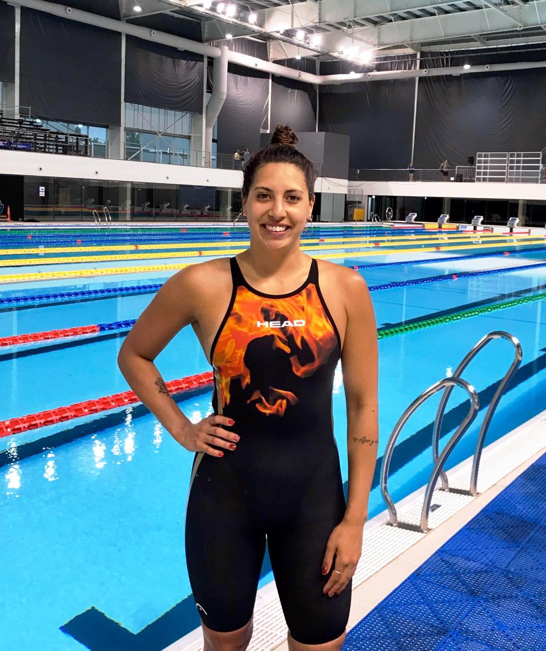 Belén Diaz in Parque Roca´s swimming pool